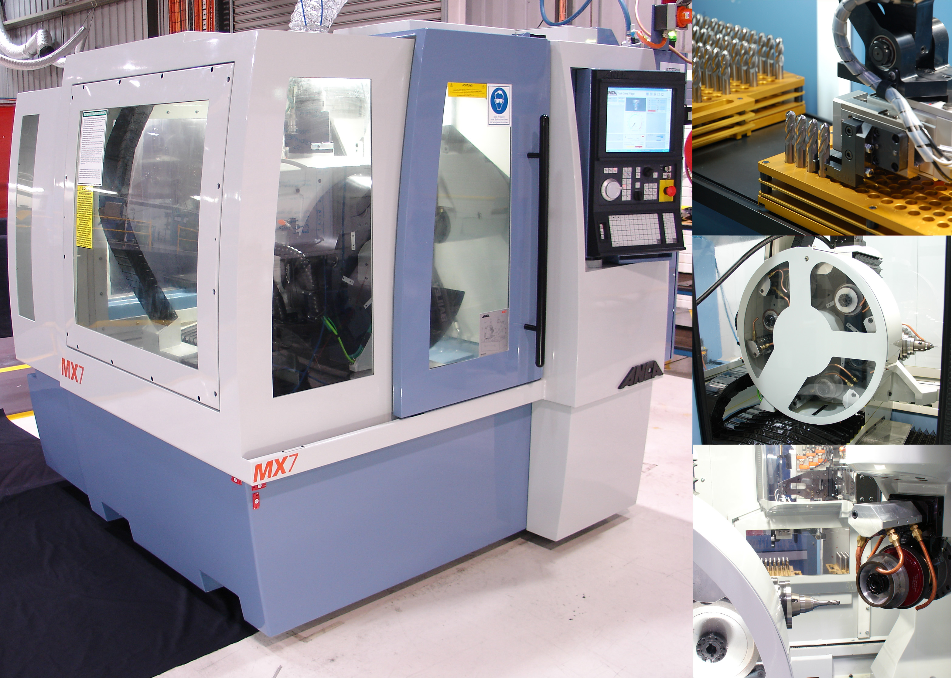 The ANCA MX7 is a modern CNC Tool and cutter grinder featuring automatic tool loading and a wheel-pack exchanger. Tool Grinders such as the MX7 can maintain micron tolerances over an extended unmanned production run.